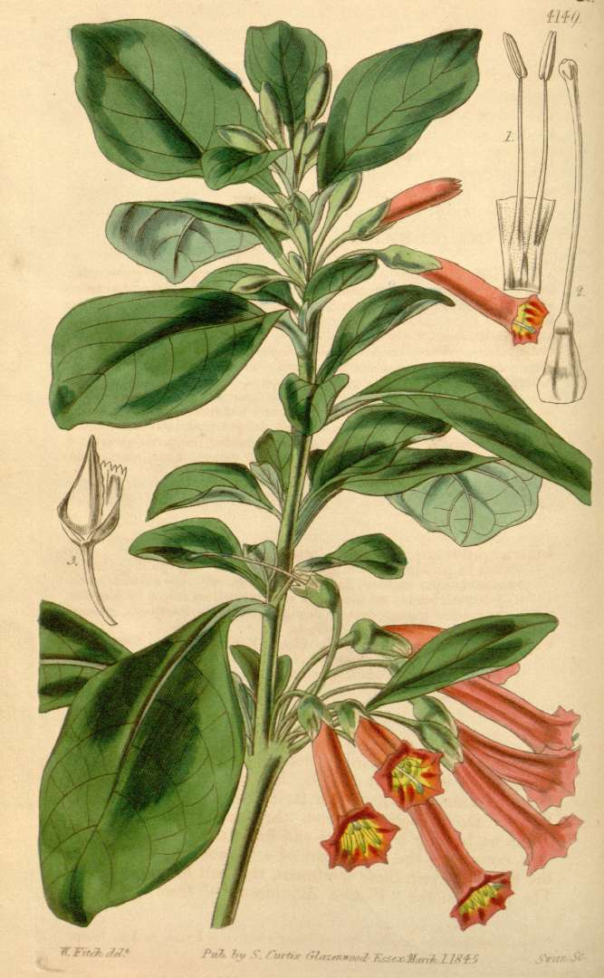 Iochroma fuchsioides, as Lycium fuchsioides